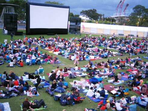 Outdoor cinema in Australia